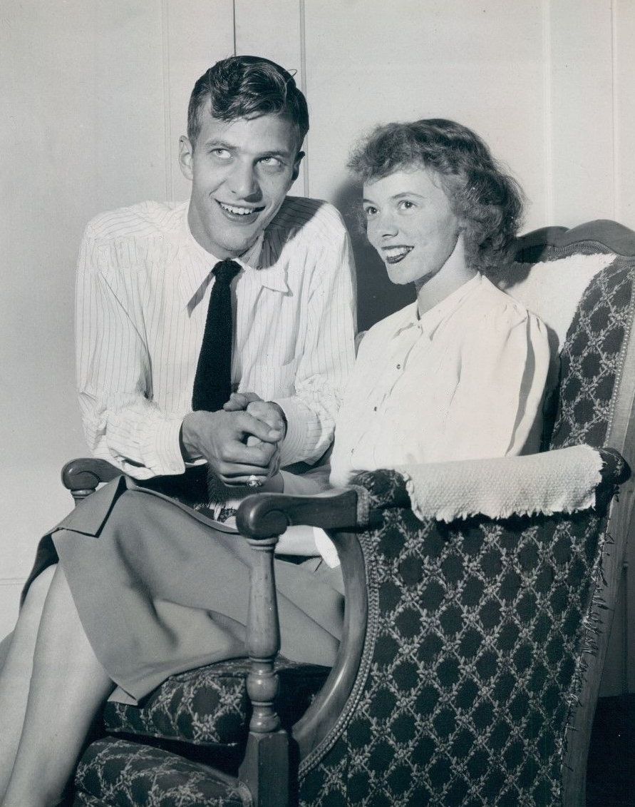 1948 Olympic Hurdler William Porter of Essex Michigan & Wife Sally Press Photo